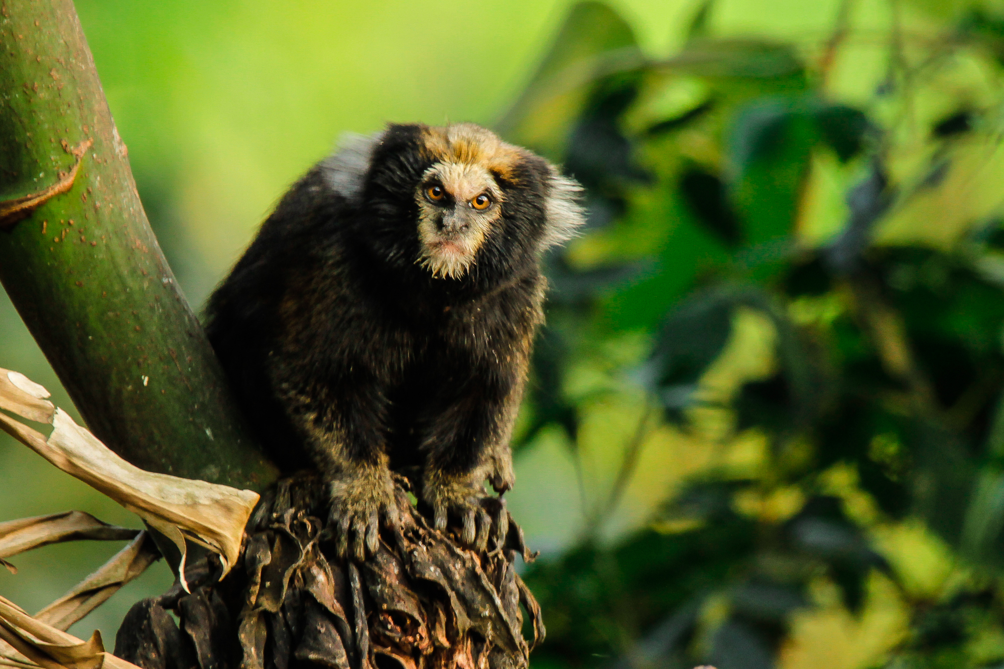 Buffy-tufted marmoset (Callithrix aurita) in Nazaré Paulista, Brazil